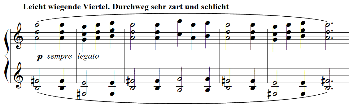 First bars of the first song from the "Marienleben" by Paul Hindemith (1923) reconstructed and presented under ENCORE software, under legal licence by the user